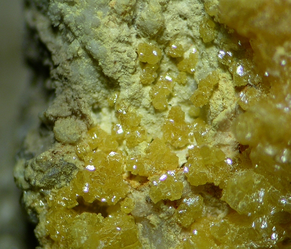 Kleinite Locality: McDermitt Mine (Cordero Mine; Old Cordero Mine), Opalite District, Humboldt Co., Nevada, USA Field of view 4 mm. Photo and specimen Leon Hupperichs.